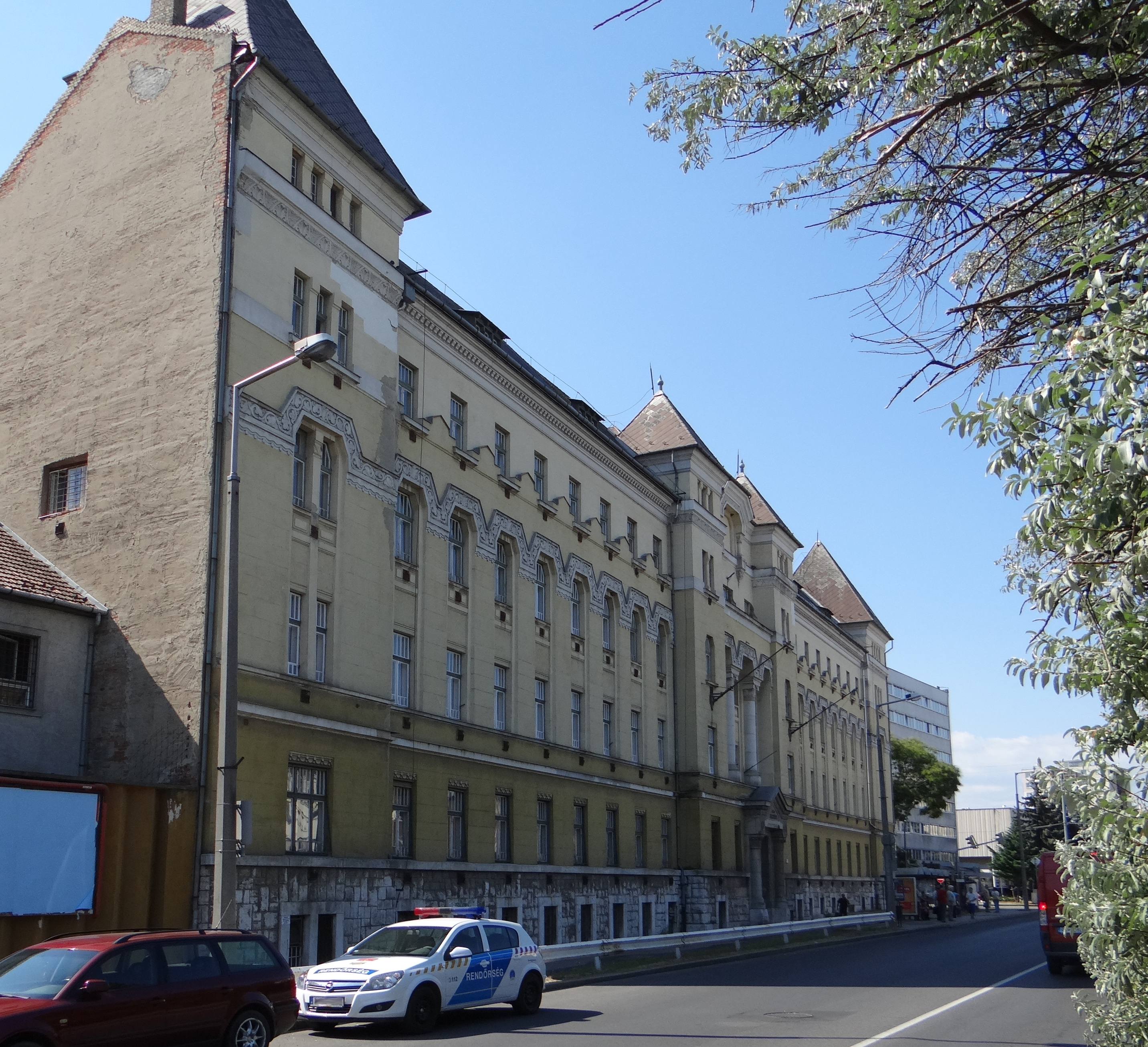 Former Finance Palace, now Building of County Archives and Labour Court, 2 Fazekas Street, Miskolc, Hungary